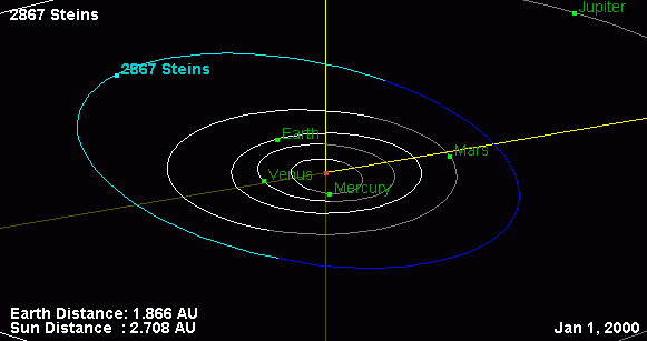 orbit of (2867) Steins